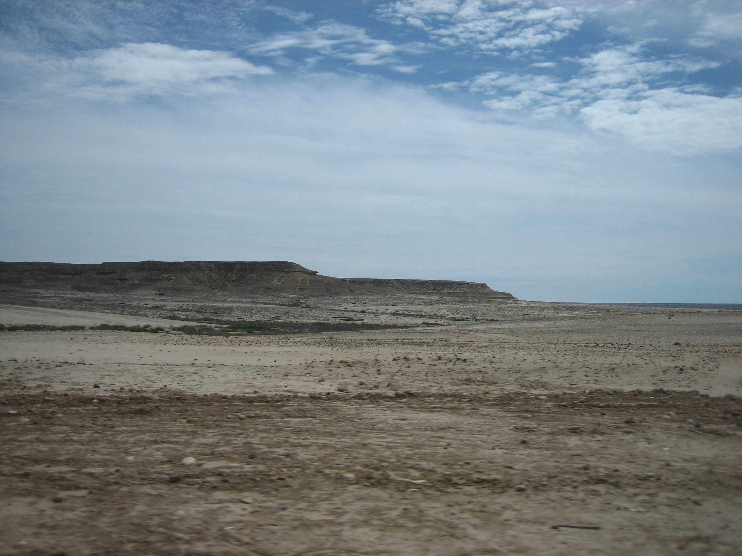 The landscape changed into this when driving from the lush hills of Lubango to Namibe